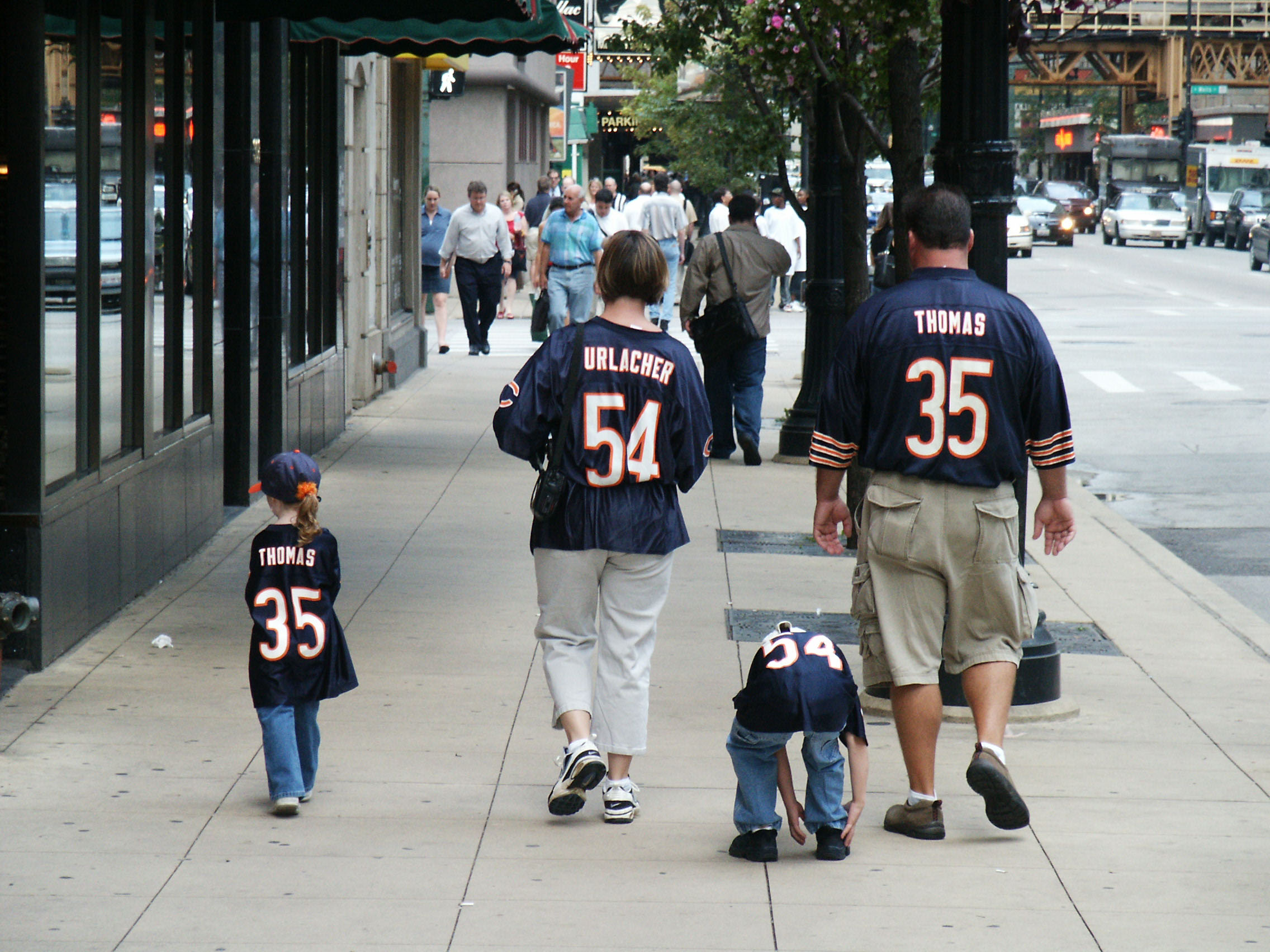 A Chicago family shows their support for the local NFL team, the Chicago Bears.